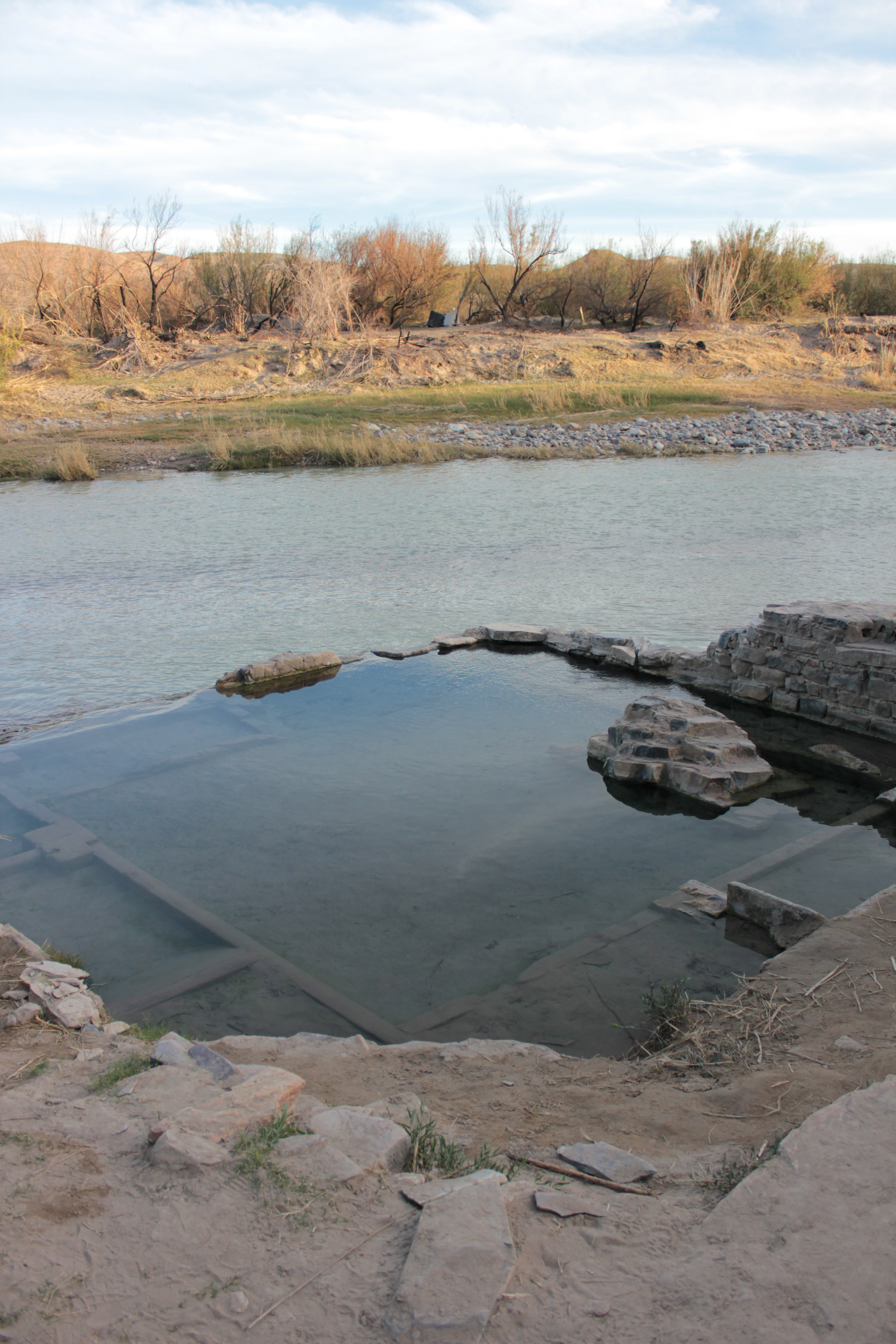 Big Bend National Park, Texas